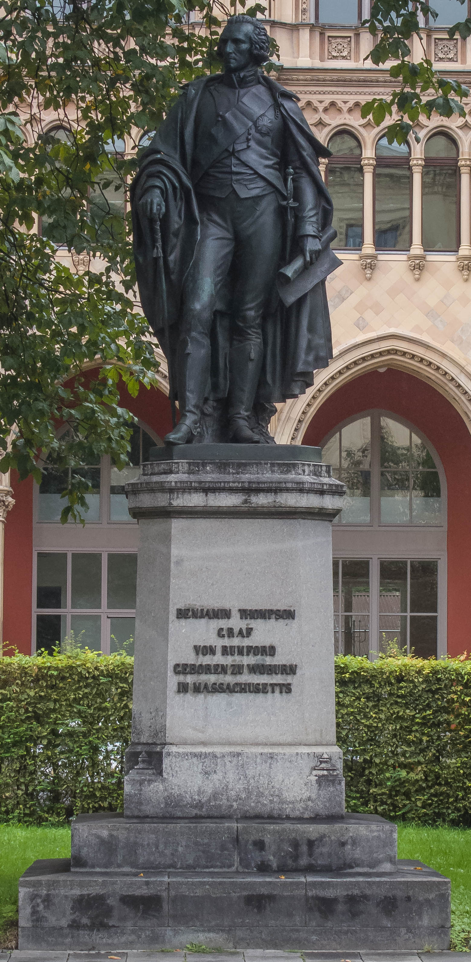 Statue of Benjamin Thompson, Count Rumford - Statue made by Franz Jakob Schwanthaler